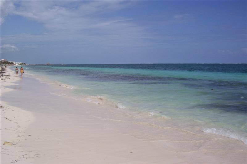 The Beach at Puerto Morelos, Mexico